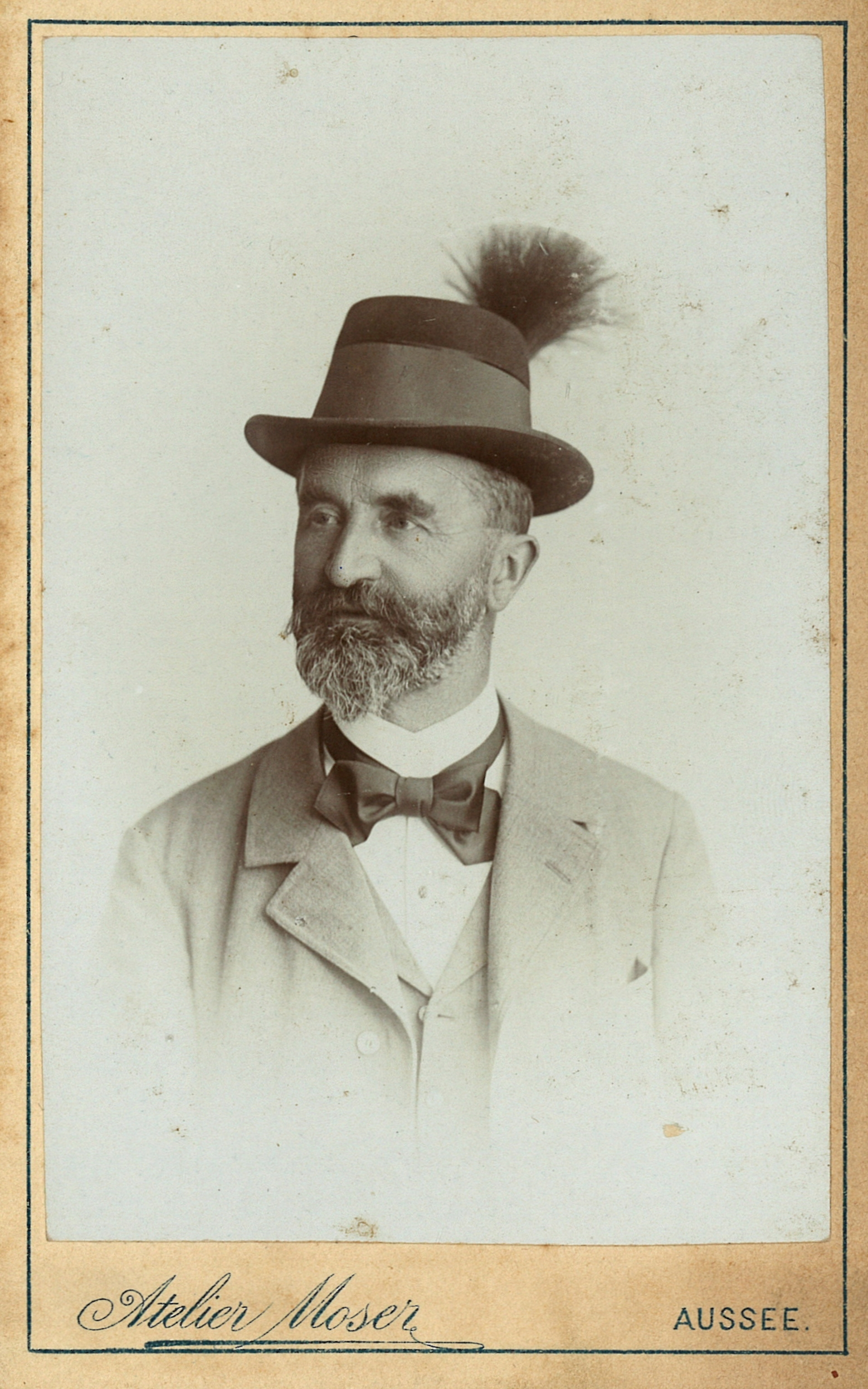 Leopold Gruber, clothier and honorary citizen in Wels, Austria